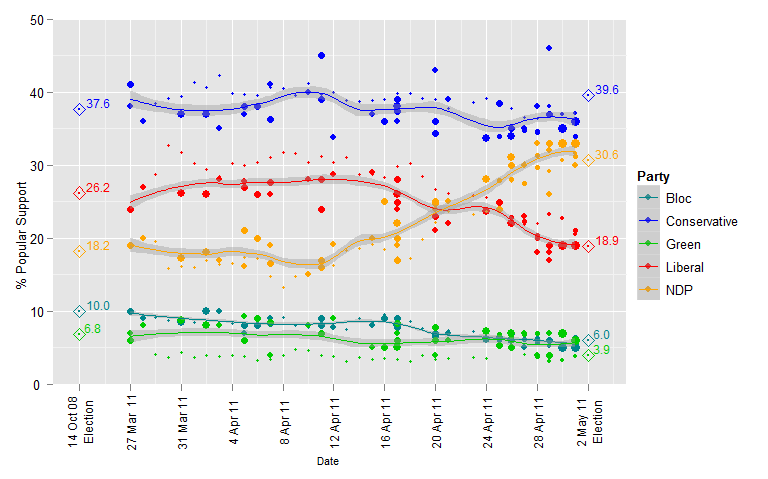 A combination of election period opinion polls during the 2011 Canadian general election. The trend lines are Local Regressions with α = 0.45 and 95% confidence interval ribbons. The point sizes and trend lines are weighted according to the confidence intervals of each individual poll.